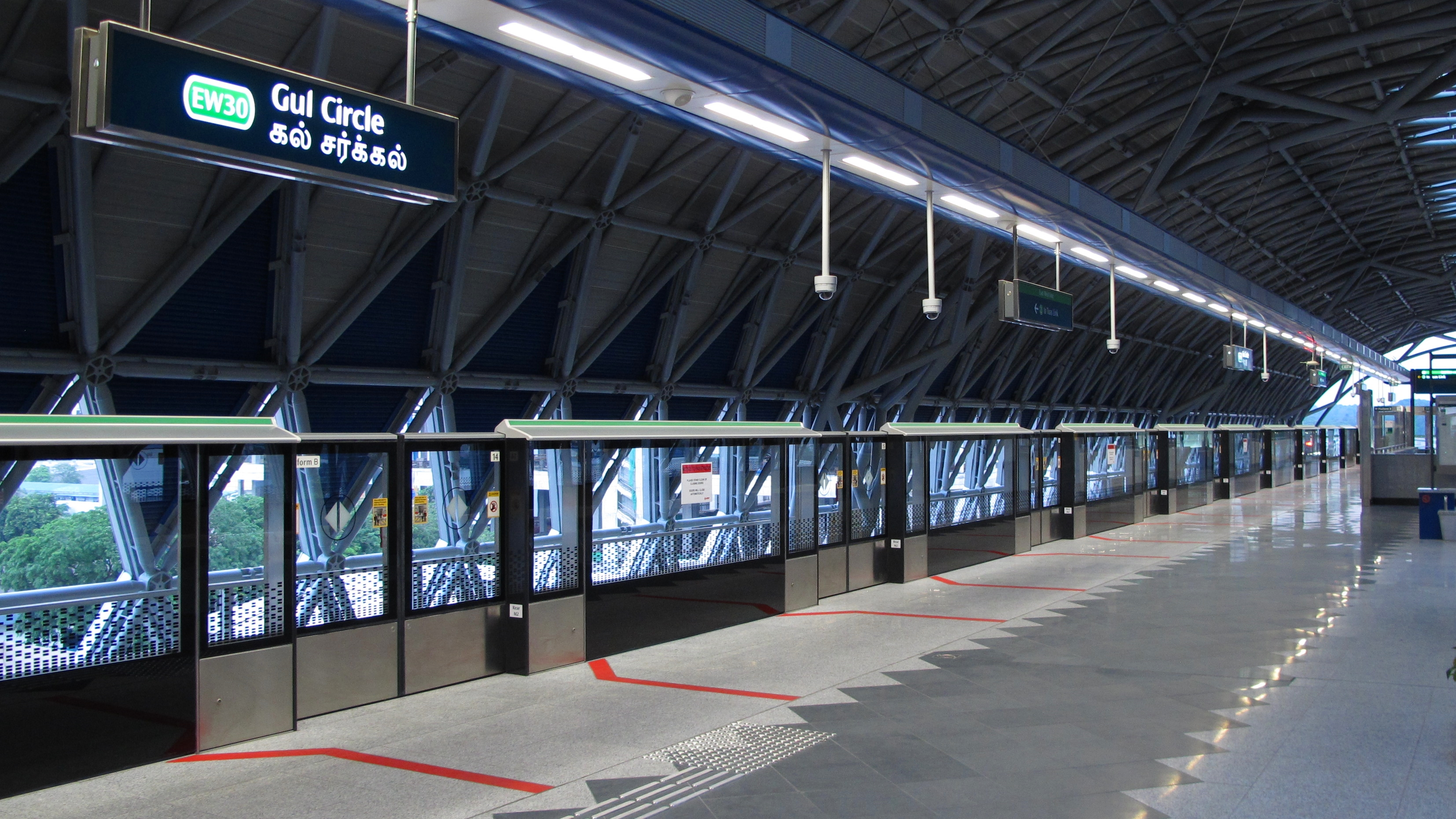 Upper Tuas Link bound platform of Gul Circle station